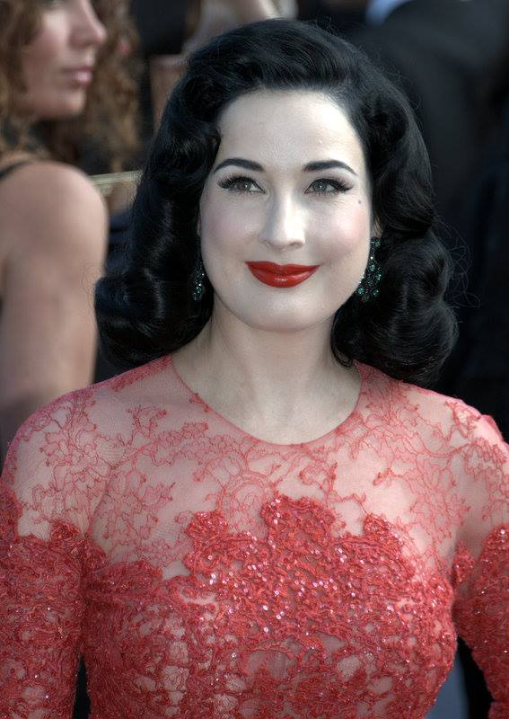 Dita von Teese at the Cannes Film Festival